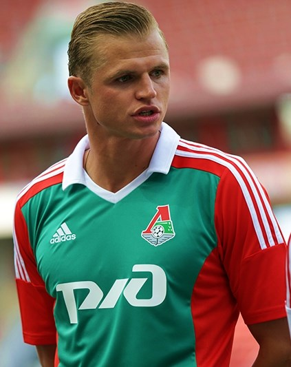 Dmitry Tarasov 14